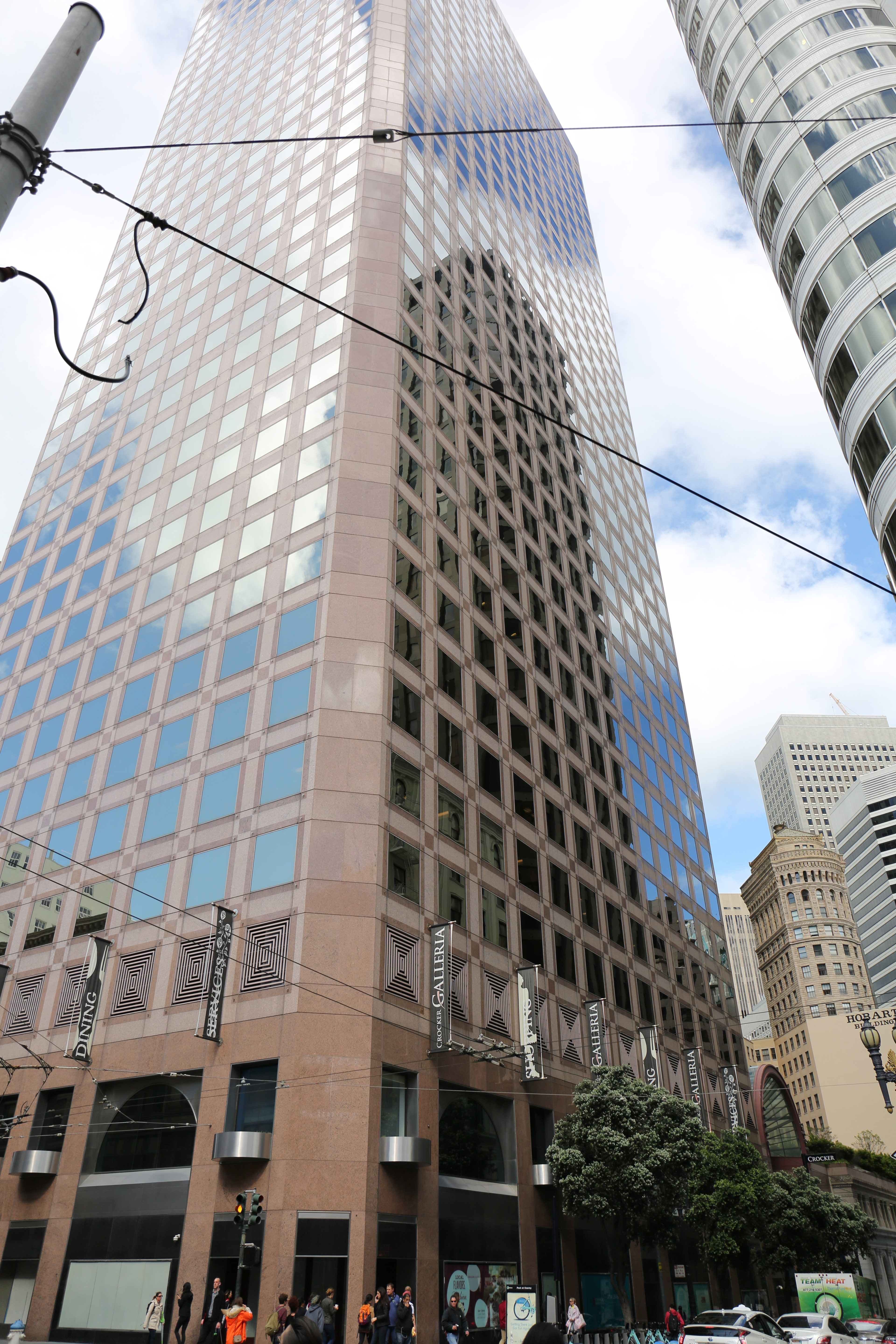 One Montgomery Tower, part of Post Montgomery Center in San Francisco's Financial District - taken in April 2017